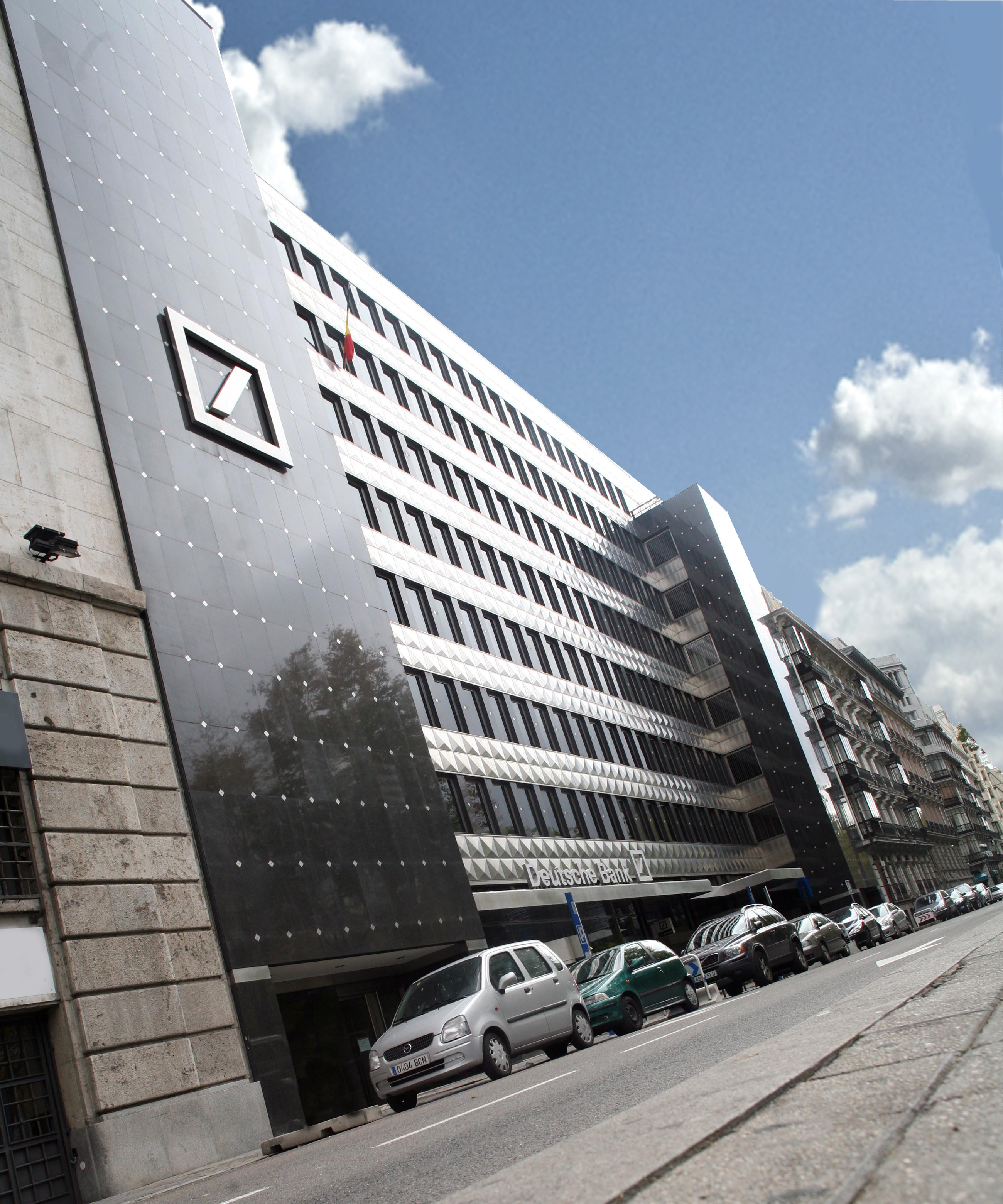 fachada castellana